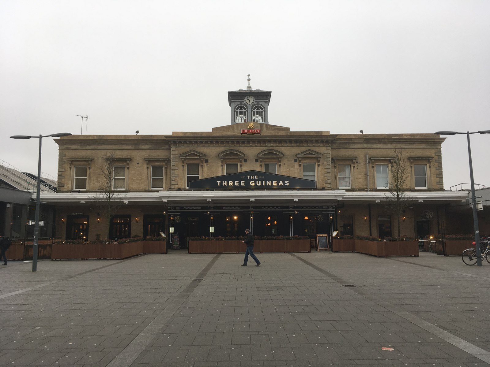 Restored Station